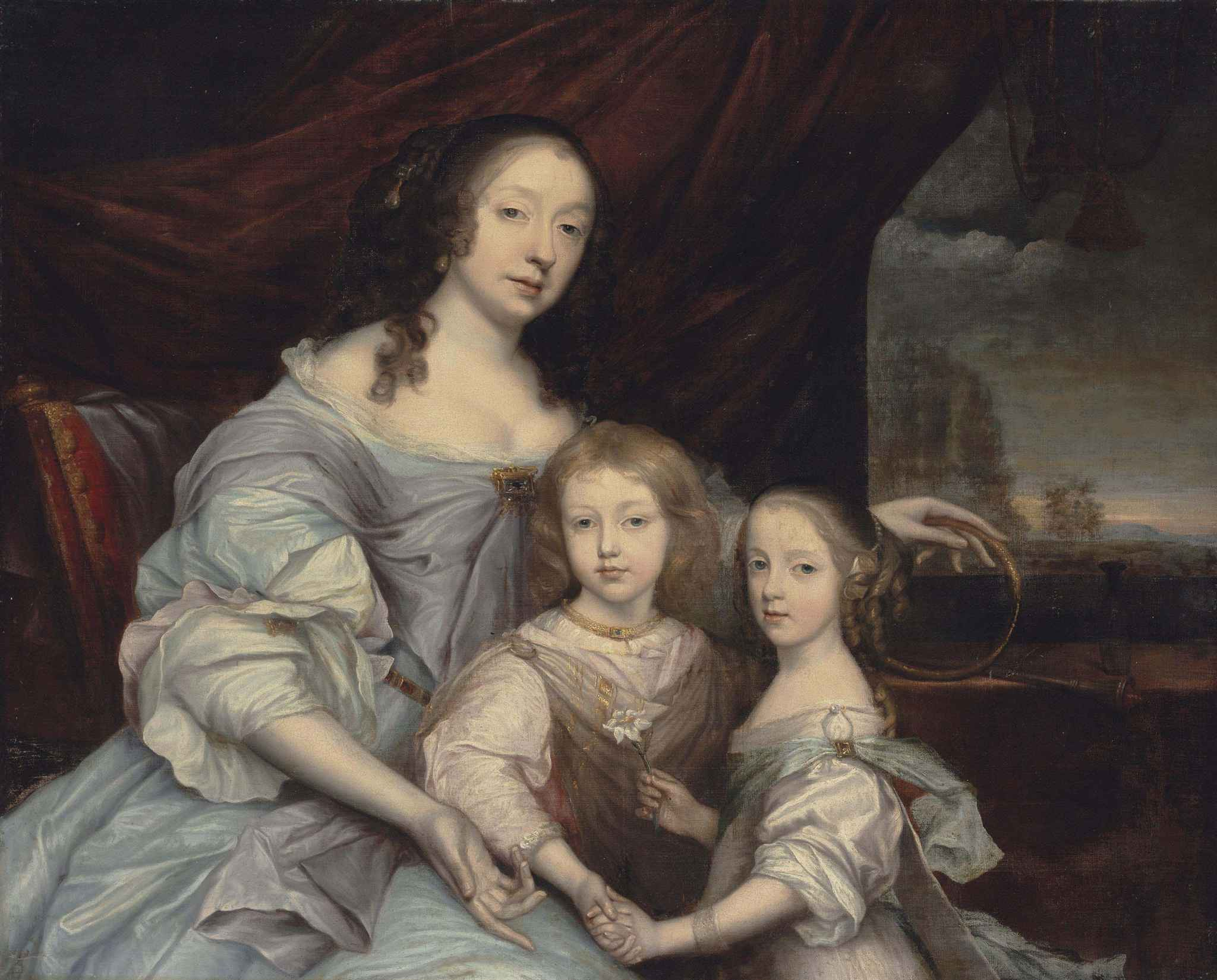 Portrait of Mary Villiers, Duchess of Lennox and Richmond (1622-1685), with her children, Esmé Stewart, 2nd Duke of Richmond (1649-1660) and Mary (1651-1668) Stuart.